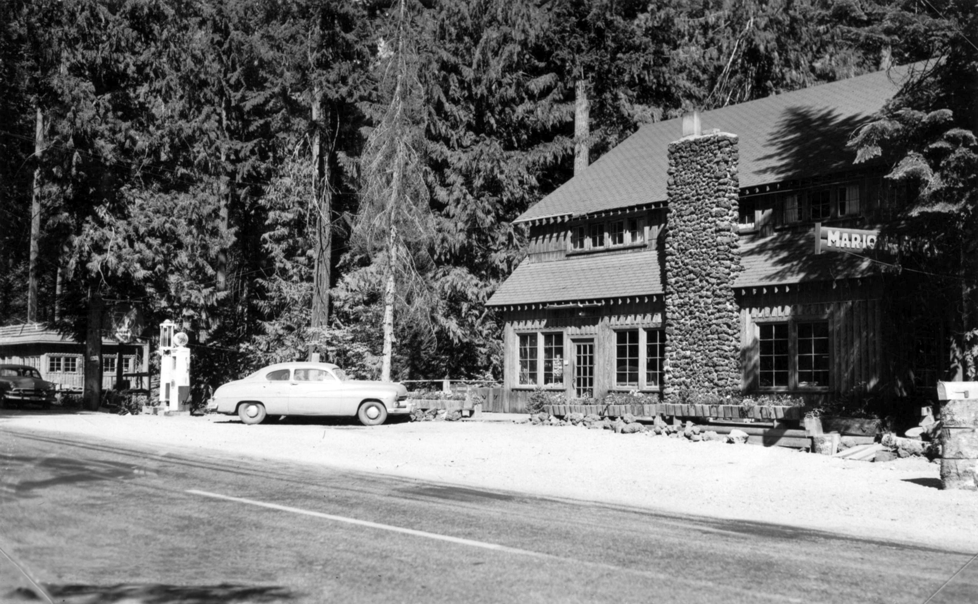 Item Notes: "Owned by Dottie Morgan's parents, Vernon Morgan, my cousin. 1964" Original Collection: Gerald W. Williams Collection, 1855-2007 Item Number: WilliamsG: SV_lodge You can find this image by searching for the item number by clicking here. Want more? You can find more digital resources online. We're happy for you to share this digital image within the spirit of The Commons; however, certain restrictions on high quality reproductions of the original physical version may apply. To read more about what “no known restrictions” means, please visit the Special Collections & Archives website, or contact staff at the OSU Special Collections & Archives Research Center for details.